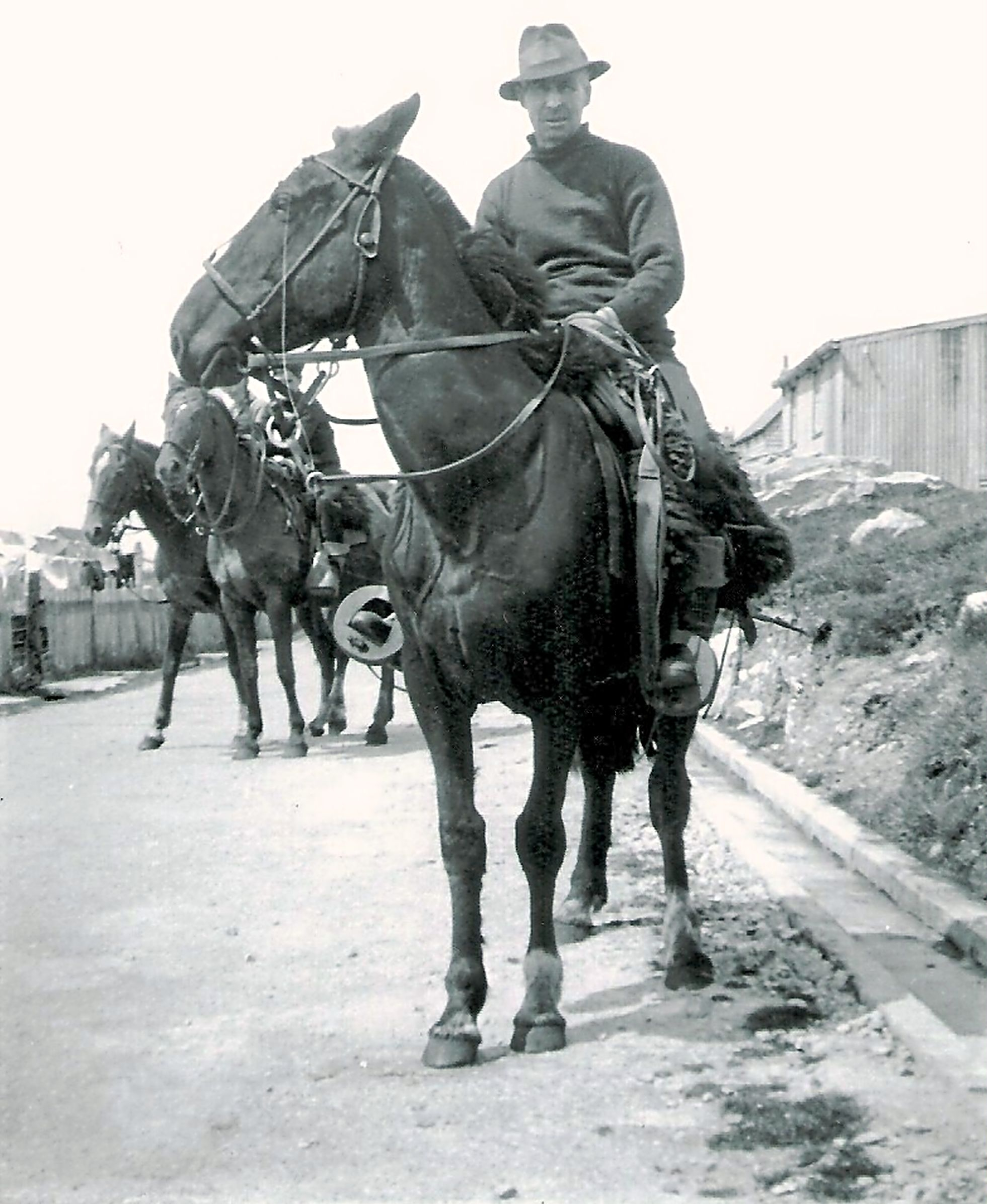 W.E.(Buzz) Spencer, taking a ride